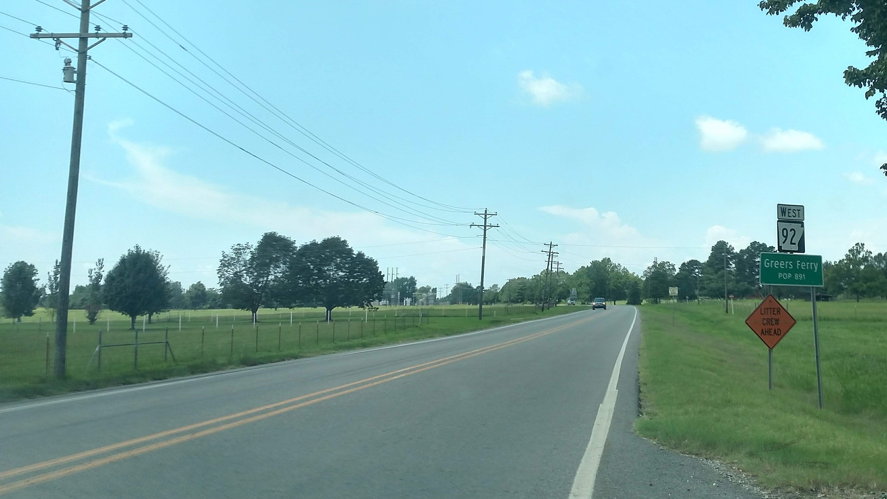 First reassurance marker for Highway 92 after the Highway 225 intersection. Also posting the Greers Ferry city limit